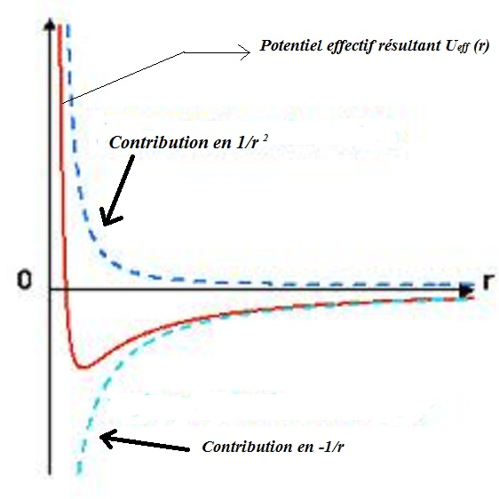 Sketch of the effective potential curve Ueff(r) for a Newtonian/Coulombic potential as a function on the radial distance r, showing the contribution in -1/r of the newtonian potential and in 1/r2 of the centrifugal barrier. This type of "effective" potential appears in the hamiltonian of a particle subjected to a central force, when the problem is reduced to a one-dimensional form.